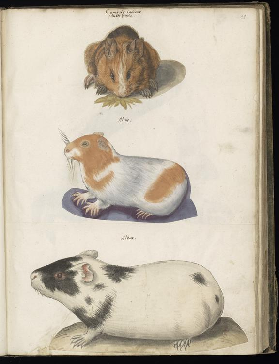 Drawing collected by Felix Platter, to be used in Historiae animalium. The second volume contained drawings of mammals – varying from dogs, sheep and deer to panthers, tigers and camels – and insects, reptiles and amphibians. The drawings were made by several artists, mostly anonymous.